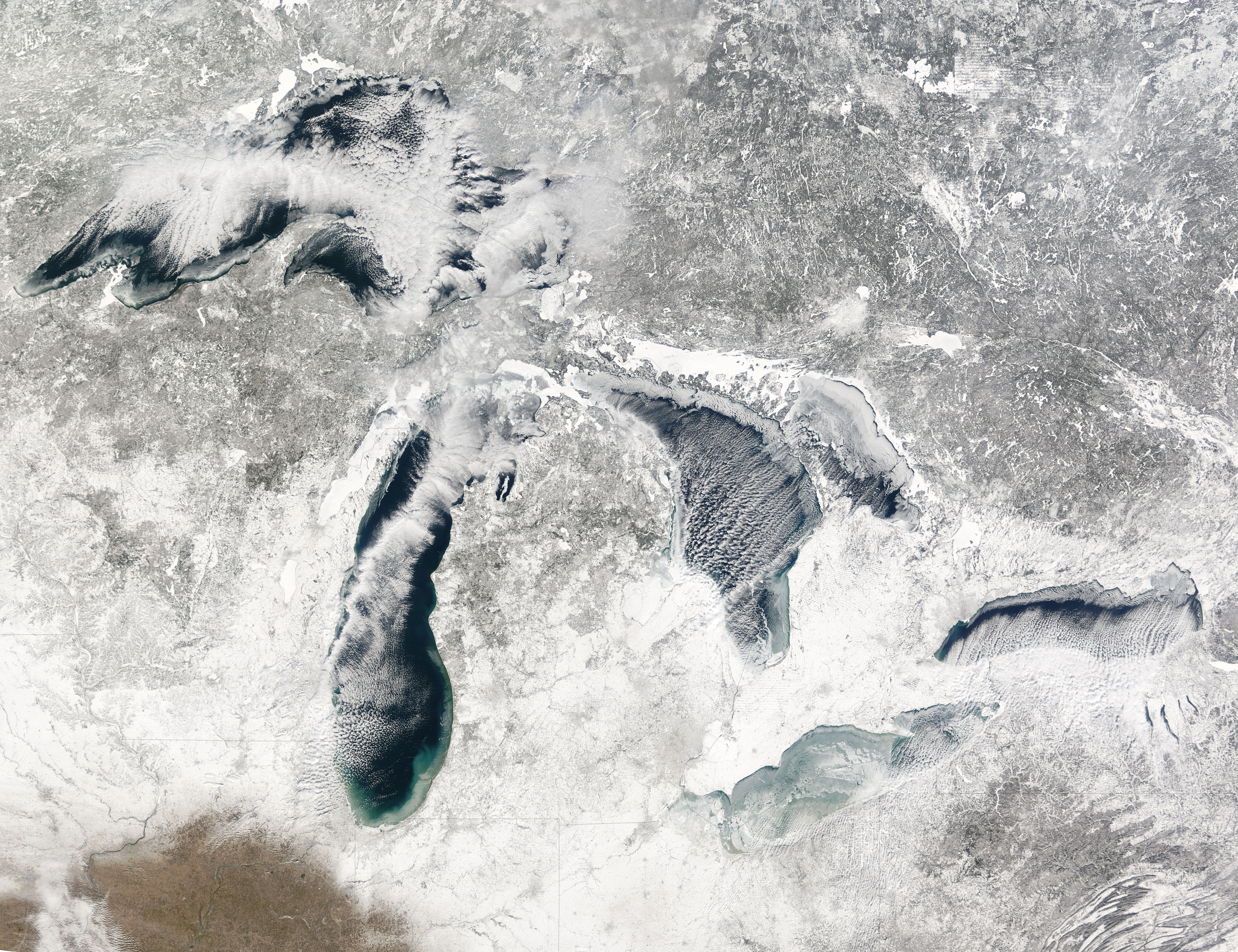 The race is on to see which will freeze first: the northeastern offshoot of Lake Huron—Georgian Bay—or Lake Erie. These images of the five Great Lakes—(left to right) Superior, Michigan, Huron, Erie, and Ontario—show ice beginning to build up around the shores of each of the lakes, with snow on the ground across virtually the entire scene. This image is made from observations by the Terra MODIS instrument on January 27, 2005.